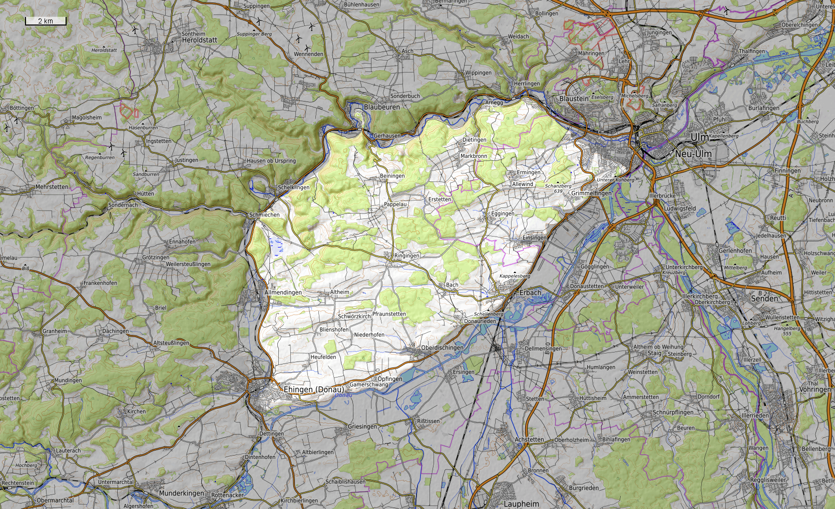 Topographic map of the Hochsträß (highlighted through difference in brightness), a small plateau at the southern rim of the Swabian Jura near the city of Ulm, Baden-Württemberg, southwestern Germany